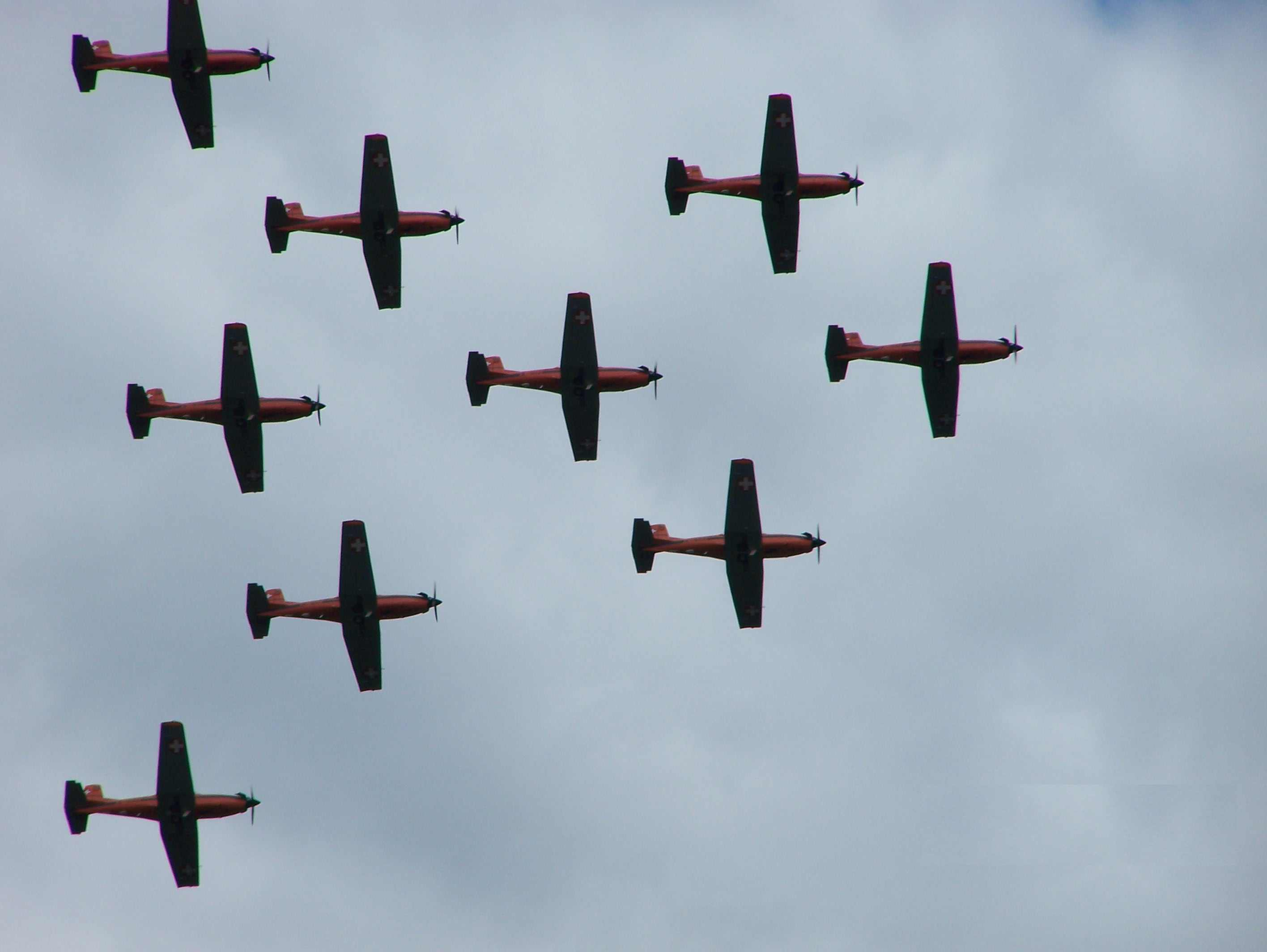 La PC-7 Team en formation